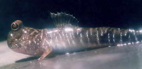 Image of the amphibious fish Mudskipper Periophthalmus gracilis (Malaysia to Northern Australia). Photo by G. Polgar